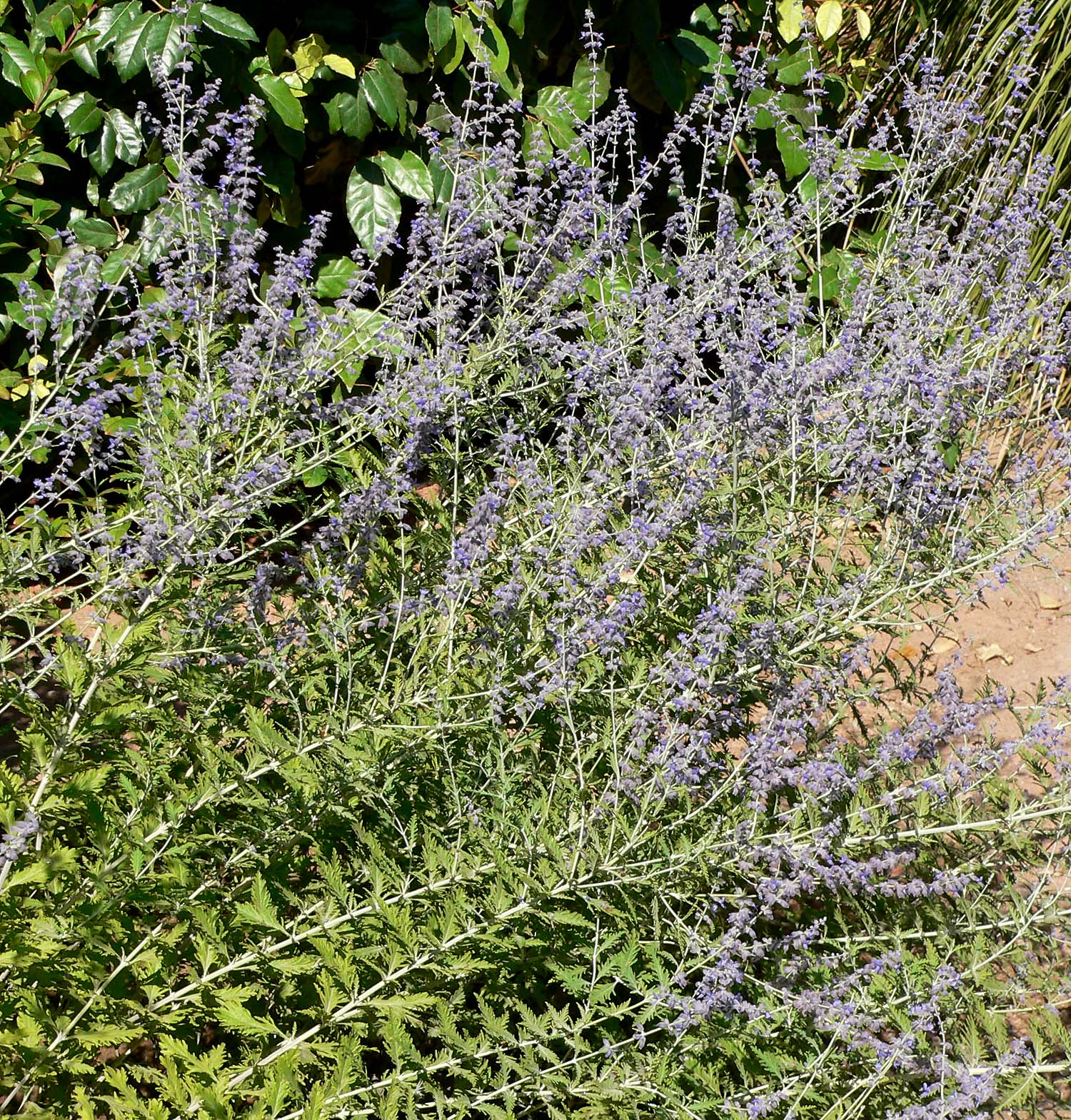 Photo of Perovskia atriplicifolia (Russian sage) at the Springs Preserve garden in Las Vegas, Nevada